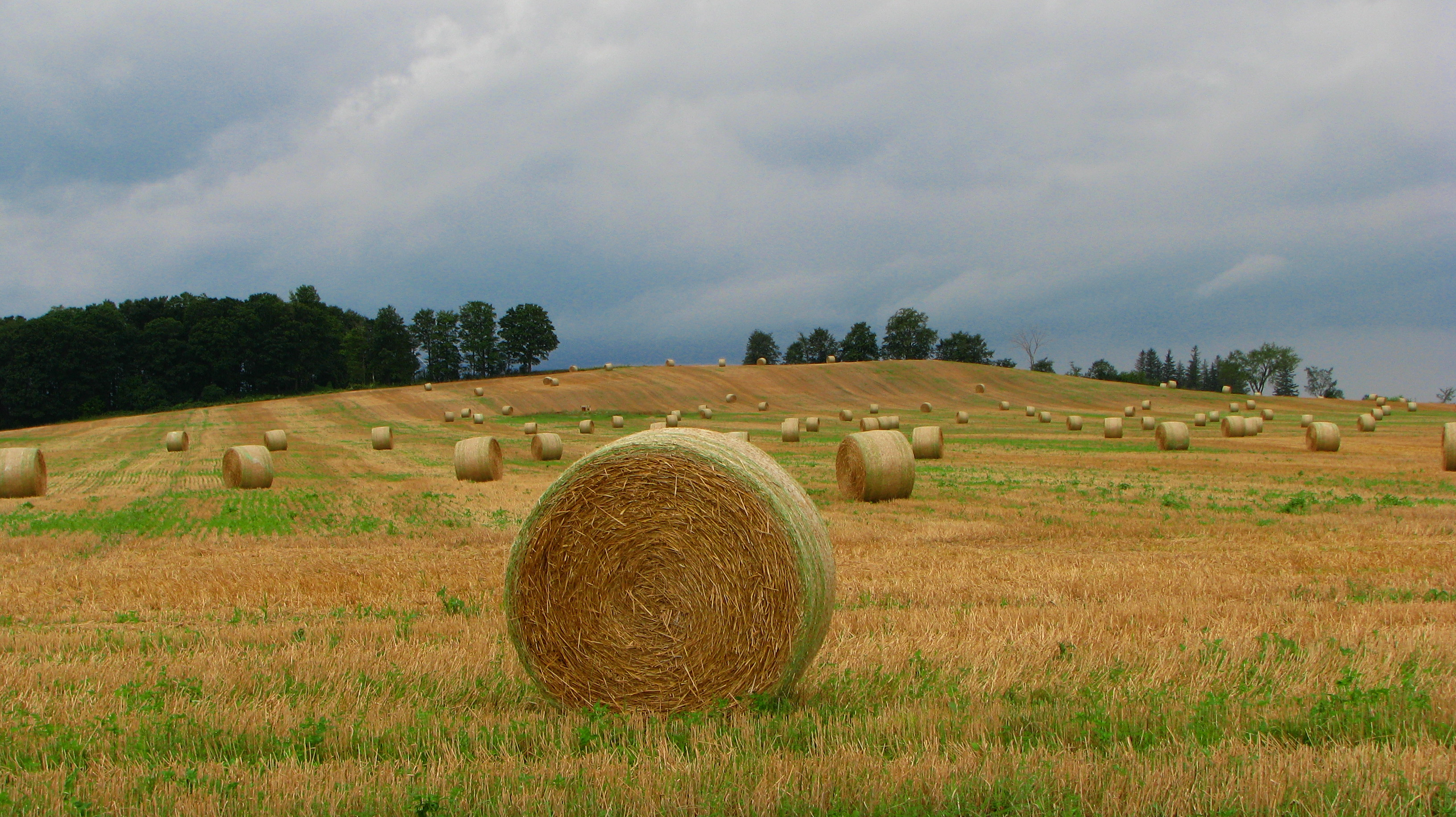 Straw bales on a stubble field in Alliston, Ontario, Canada.